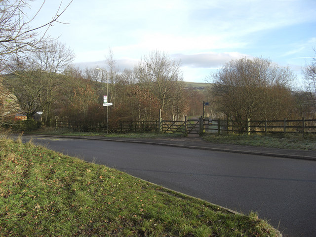 High Hill Road, Thornsett This is where the road is crossed by the Sett Valley Trail on the outskirts of Thornsett. The section of the trail through the gates leads to Birch Vale.